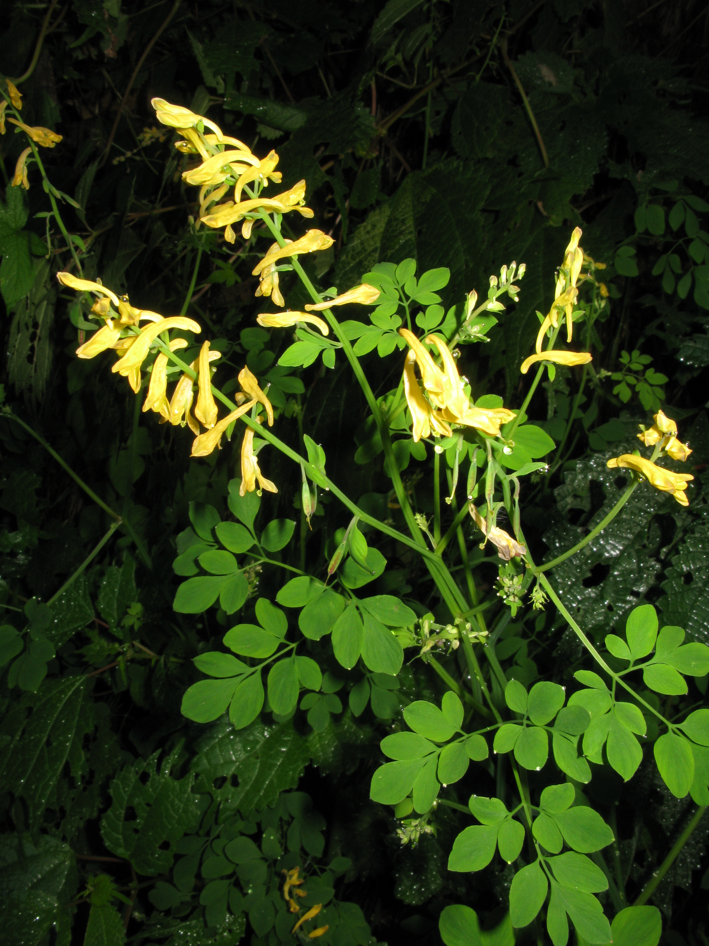 Corydalis raddeana, Aizu area, Fukushima pref., Japan